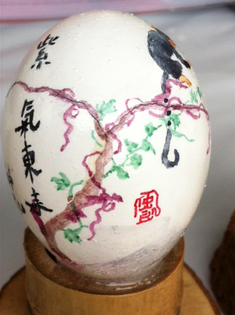 2013 Augusta Goodwill dragon boat races